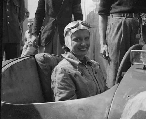 The XI "Aosta – Gran San Bernardo" hillclimb on 1 Settembre 1949,[1] this is Maria Teresa de Filippis before the race (she became 5th place in the 750 ccm class). She usually raced a Urania 750 ccm (1948 to 1950), and the results list[2] indicates she drove a Urania. So this car would then be the Urania.